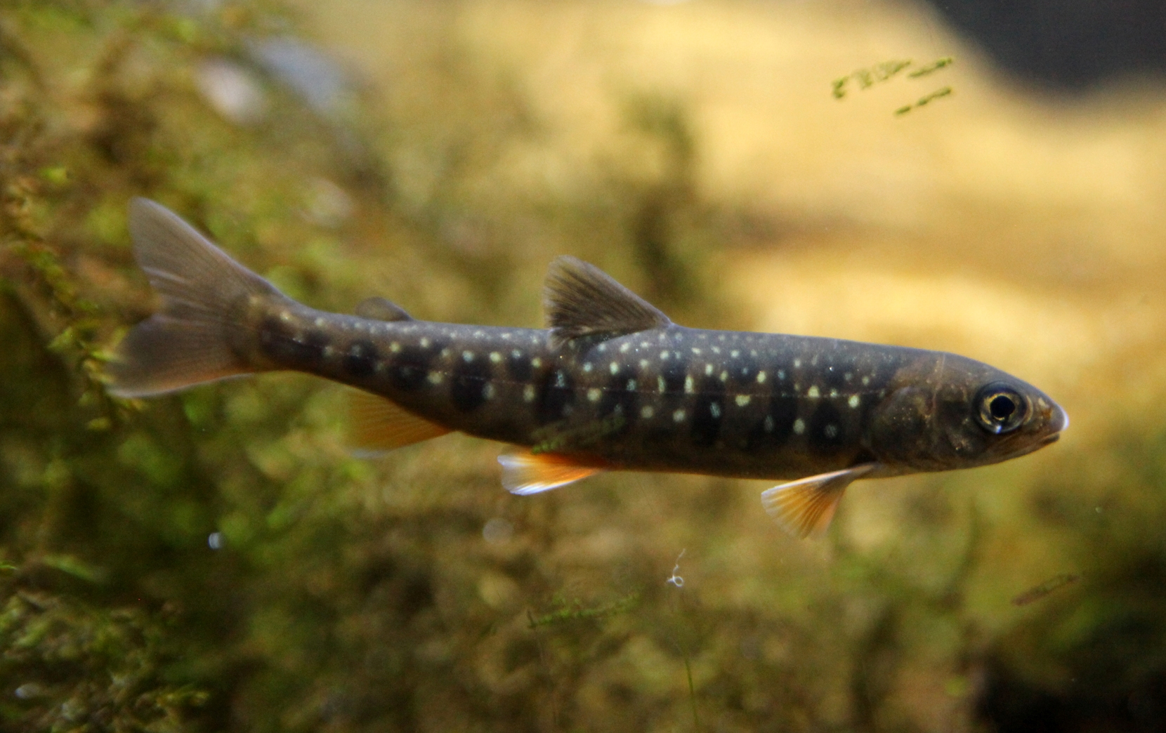 Juvenile Salvelinus umbla in Acquario Civico, Milan